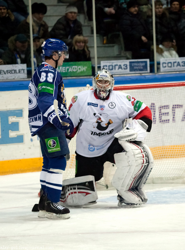 KHL game Amur Khabarovsk vs. Traktor Chelyabinsk on January 28, 2012. Amur forward Jakub Petružálek and Traktor's goalie Michael Garnett.